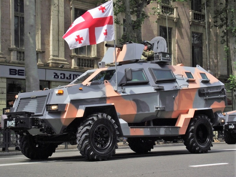 Georgian made armoured personnel carrier Didgori 2